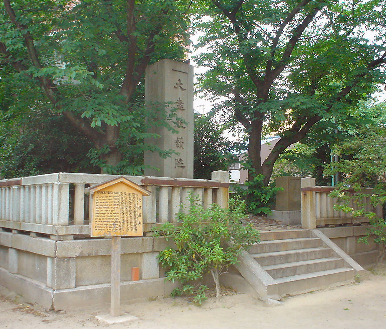 Photograph of the memorial stone at the site of the lost Daigakuden hall of the Heian Palace in Kyoto.